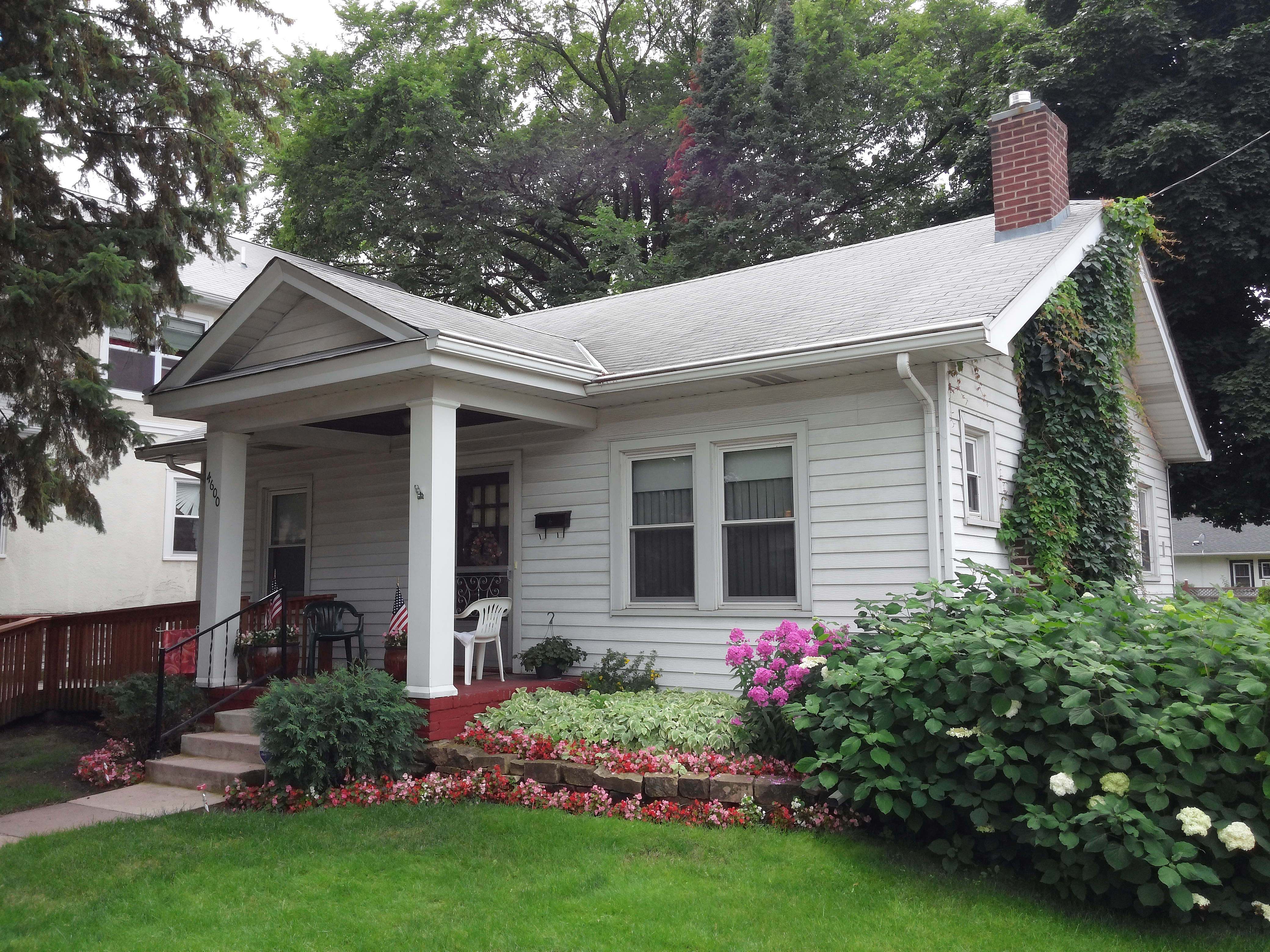 The Arthur and Edith Lee House at 46th Street and Columbus Avenue in Minneapolis, MN.